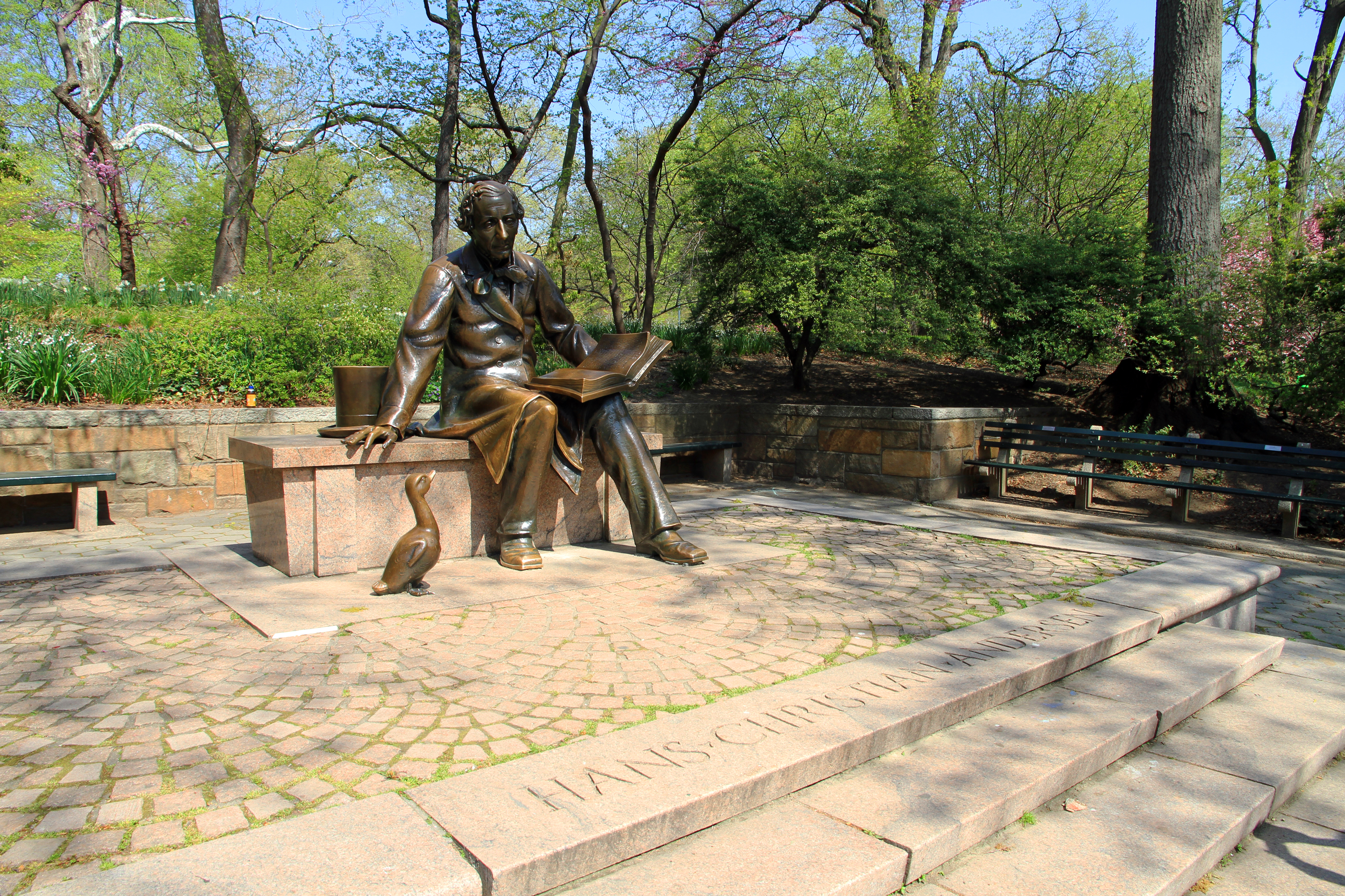 Hans Christian Andersen Statue